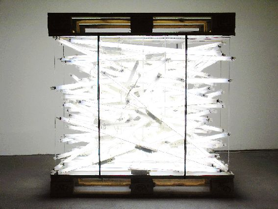 "Frachtgut" , Light art installation with fluorescent tubes, 1998